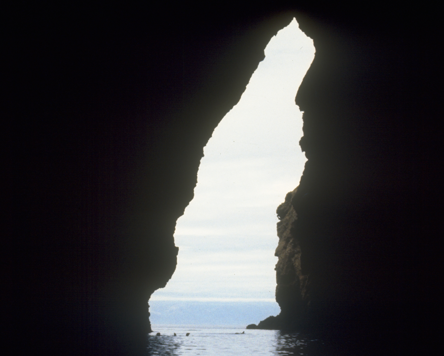 Painted Cave, Santa Cruz Island, Channel Islands, California. Original Description: Painted Cave, named after its colorful rock types, lichens, and algaes, is one of the largest known sea caves in the world, measuring nearly a quarter mile long and 100 feet wide, with an entrance ceiling that rises upward to 160 feet.